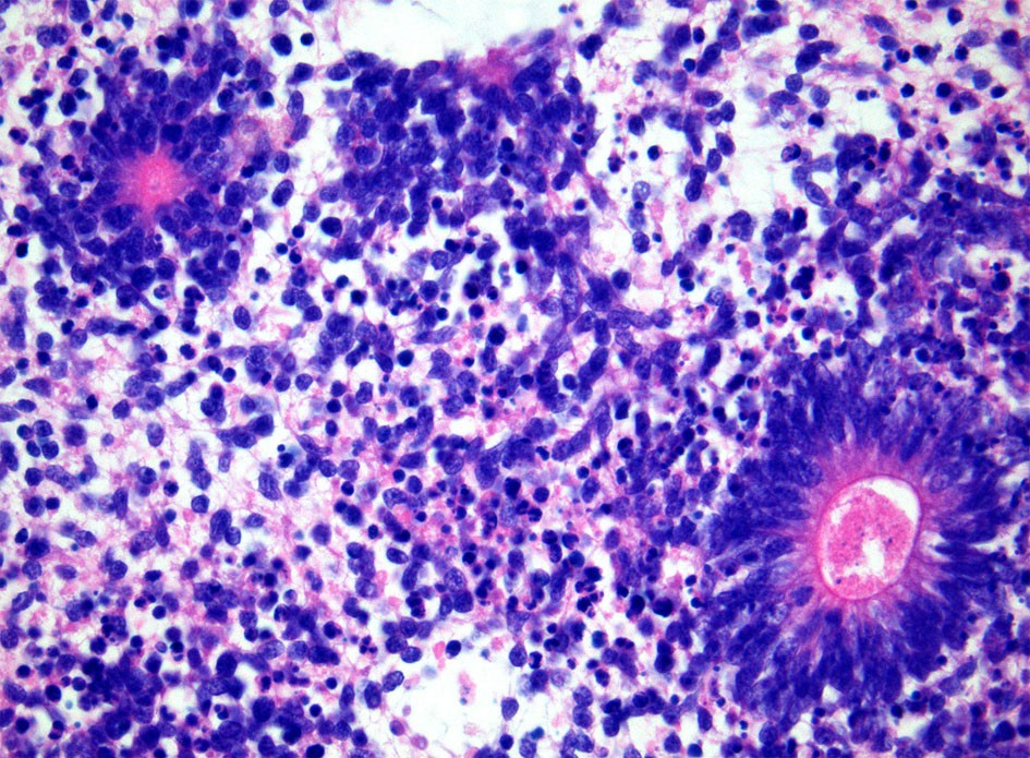 Ependymoblastomatous rosette in a case of ependymoblastoma. H&E staining. 400x